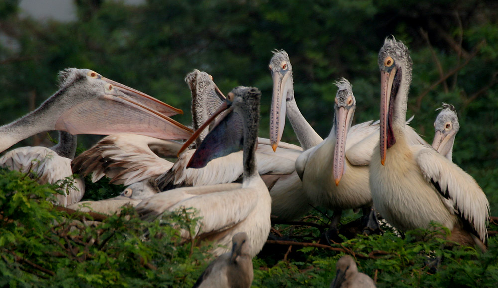 Spot-billed Pelican Pelecanus philippensis in Uppalapadu, Andhra Pradesh, India. (Bangla: Sarosh)